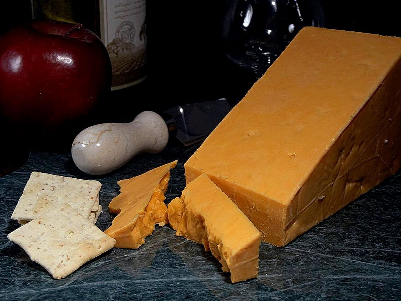 Image title: Red leicester cheese Image from Public domain images website